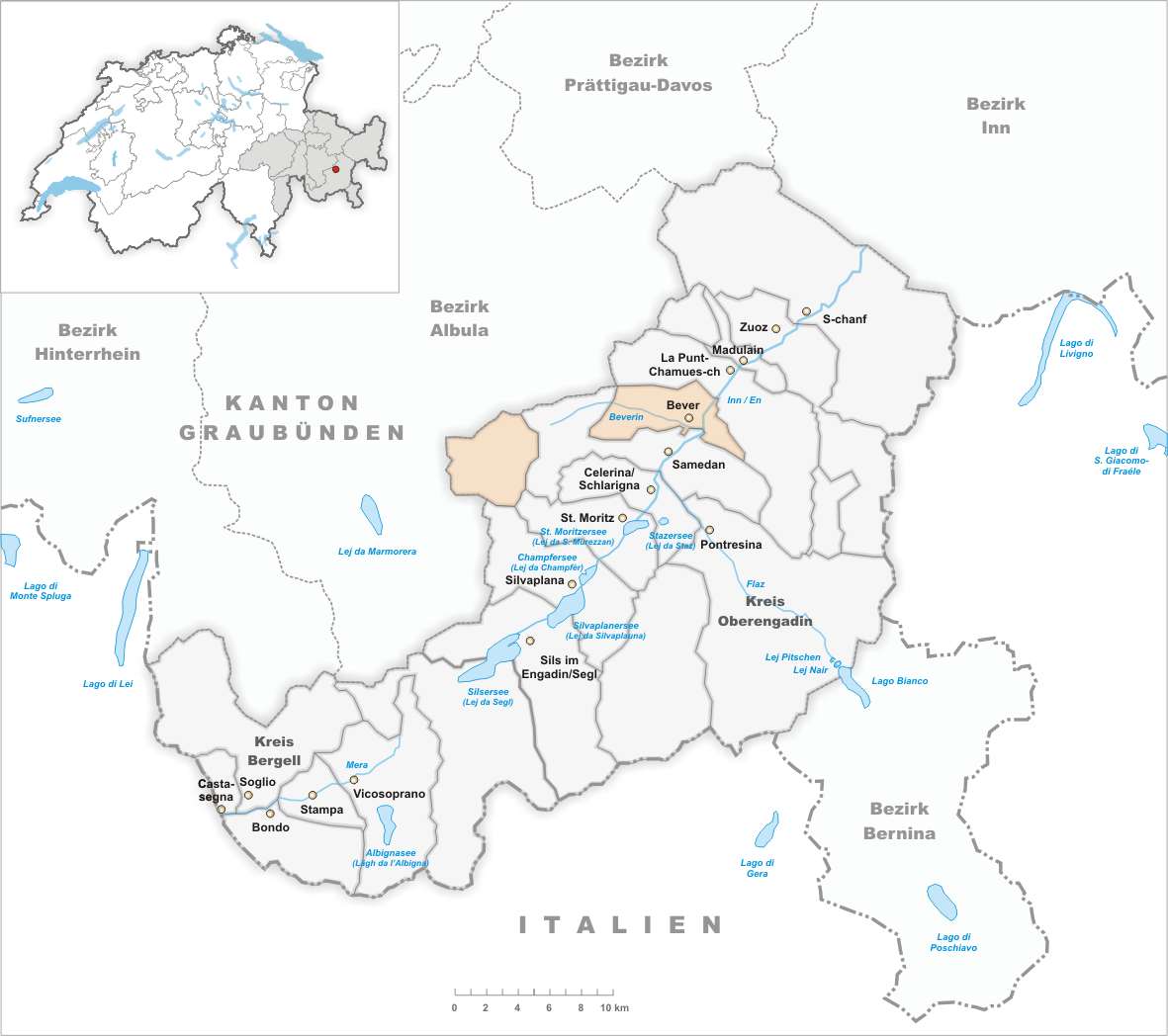 Municipality Bever